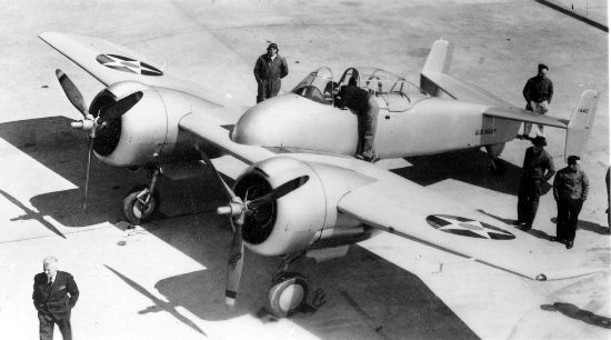 Grumman XF5F-1 Skyrocket during flight testing.